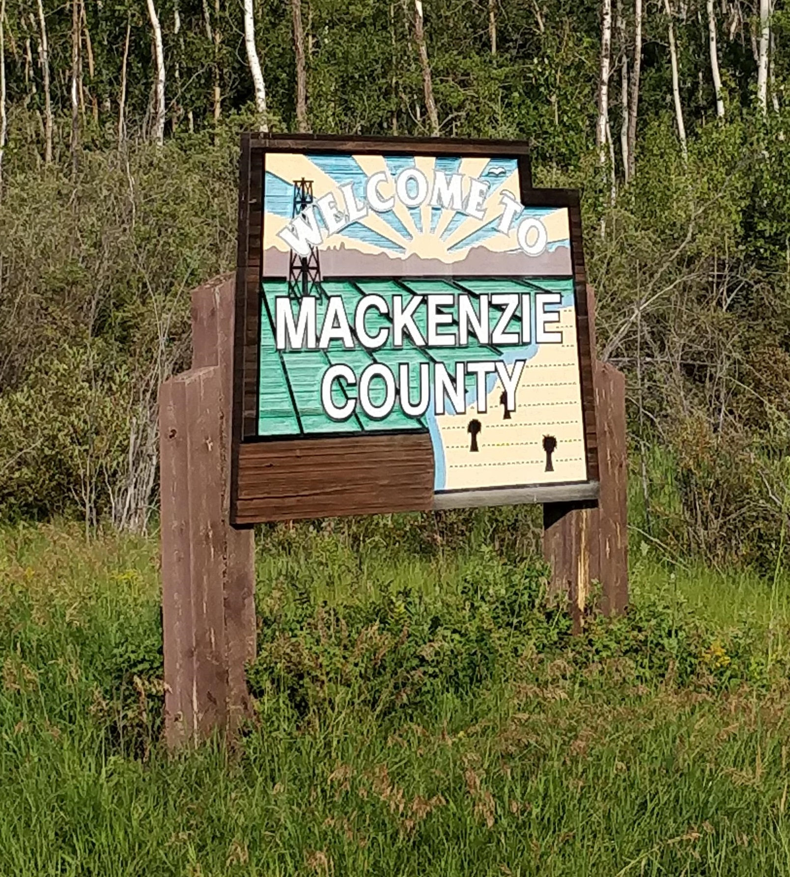 Sign marking the southern boundary of Mackenzie County, Alberta.